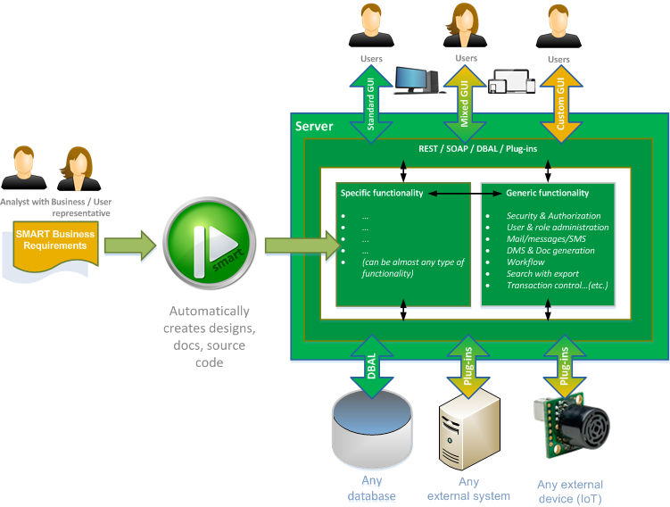 Global Architecture of SPADE and the solution it creates